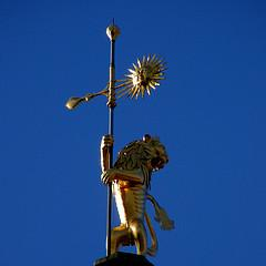 Lion d'Arras